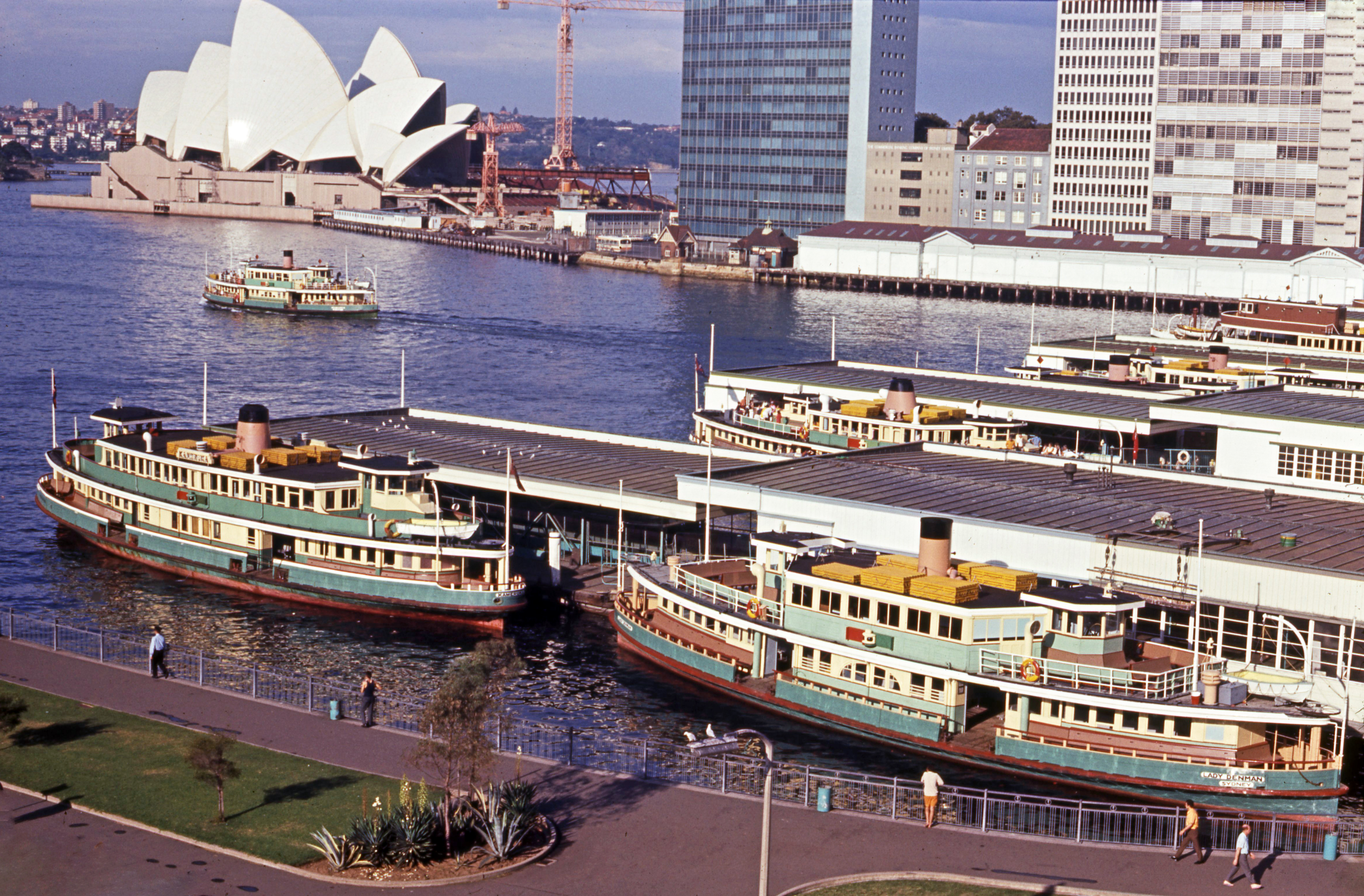 Sydney ferries KAMERUKA - LADY DENMAN - KARINGAL at Circular Quay Sydney 15 Feb 1970. John Ward, Ferries Kameruka and Lady Denman, Circular Quay, 1970 (15/02/1970), [A-01074392]. City of Sydney Archives, accessed 07 Jun 2020